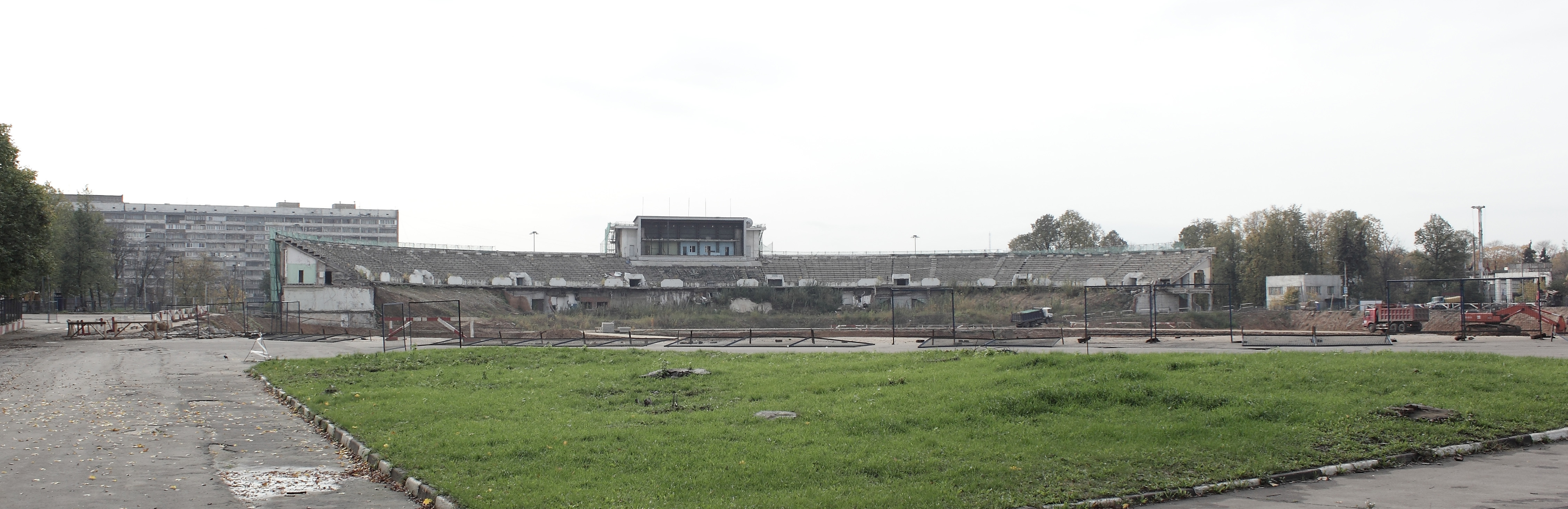 Dynamo Stadium (Moscow) after the demolition of the eastern, northern and southern stands. 4 october 2012.